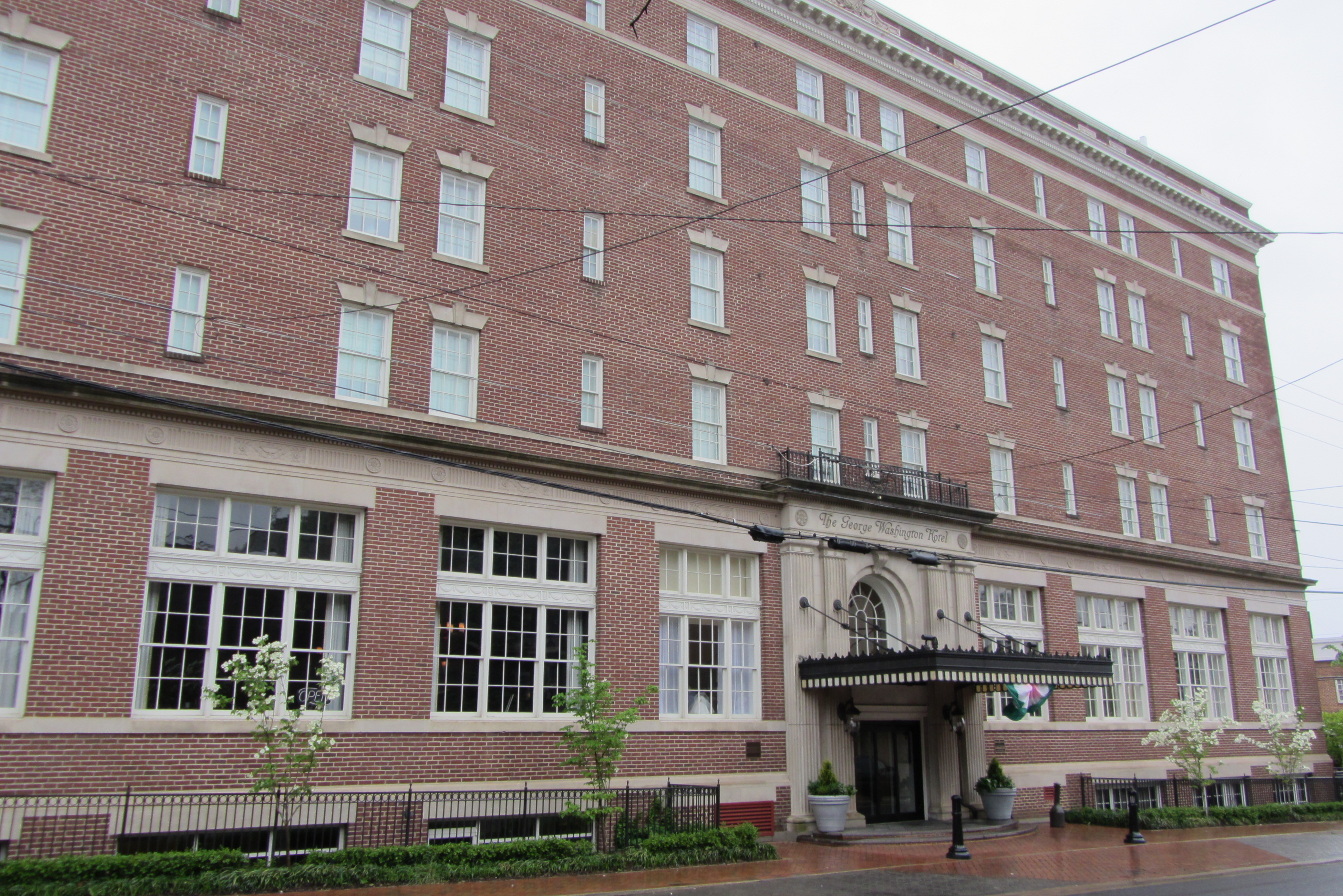 The George Washington Hotel, 103 E. Piccadilly St., Winchester, Virginia, USA